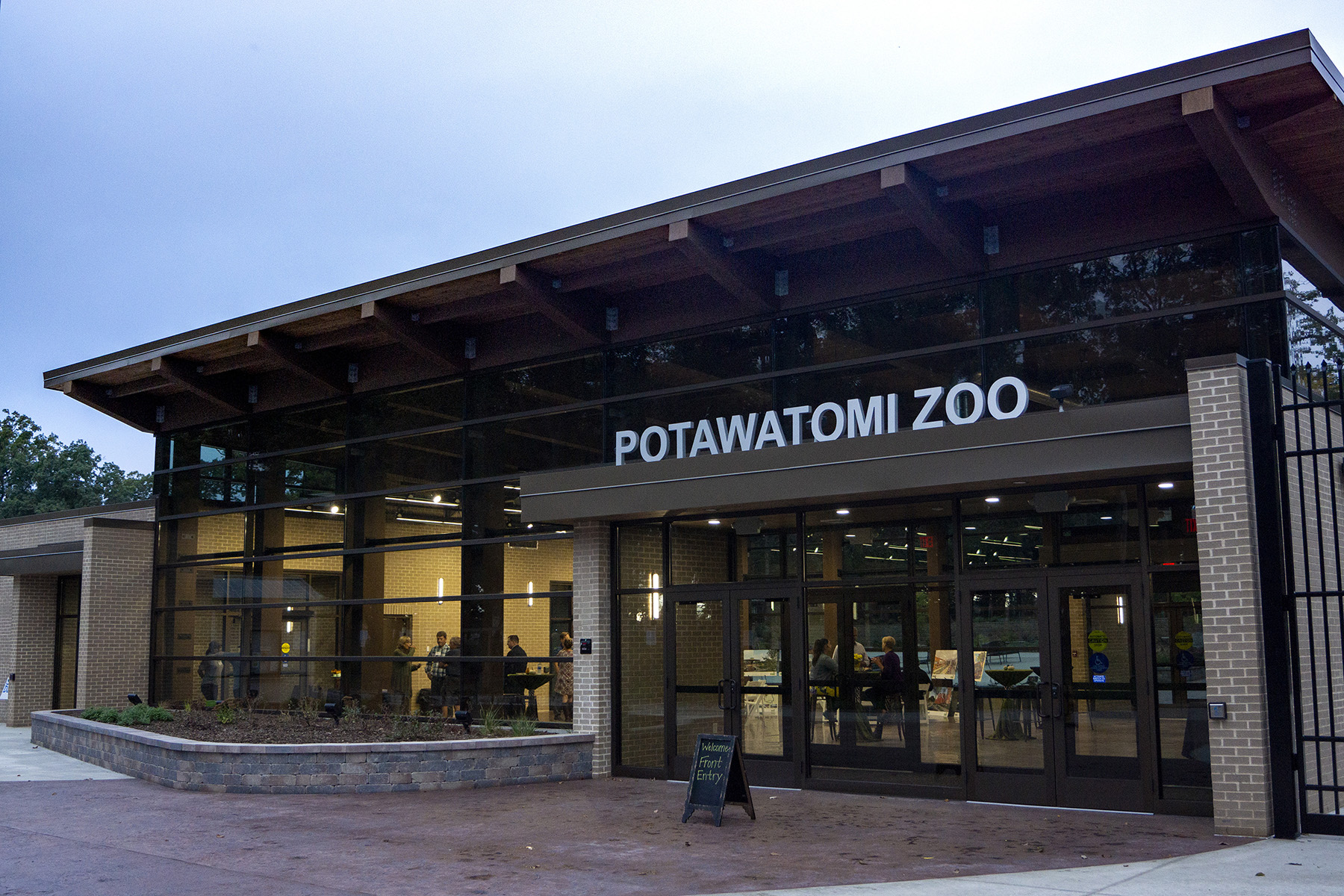 This building is the new entrance and gift shop for the Potawatomi Zoo in South Bend, IN. It was constructed in 2019.